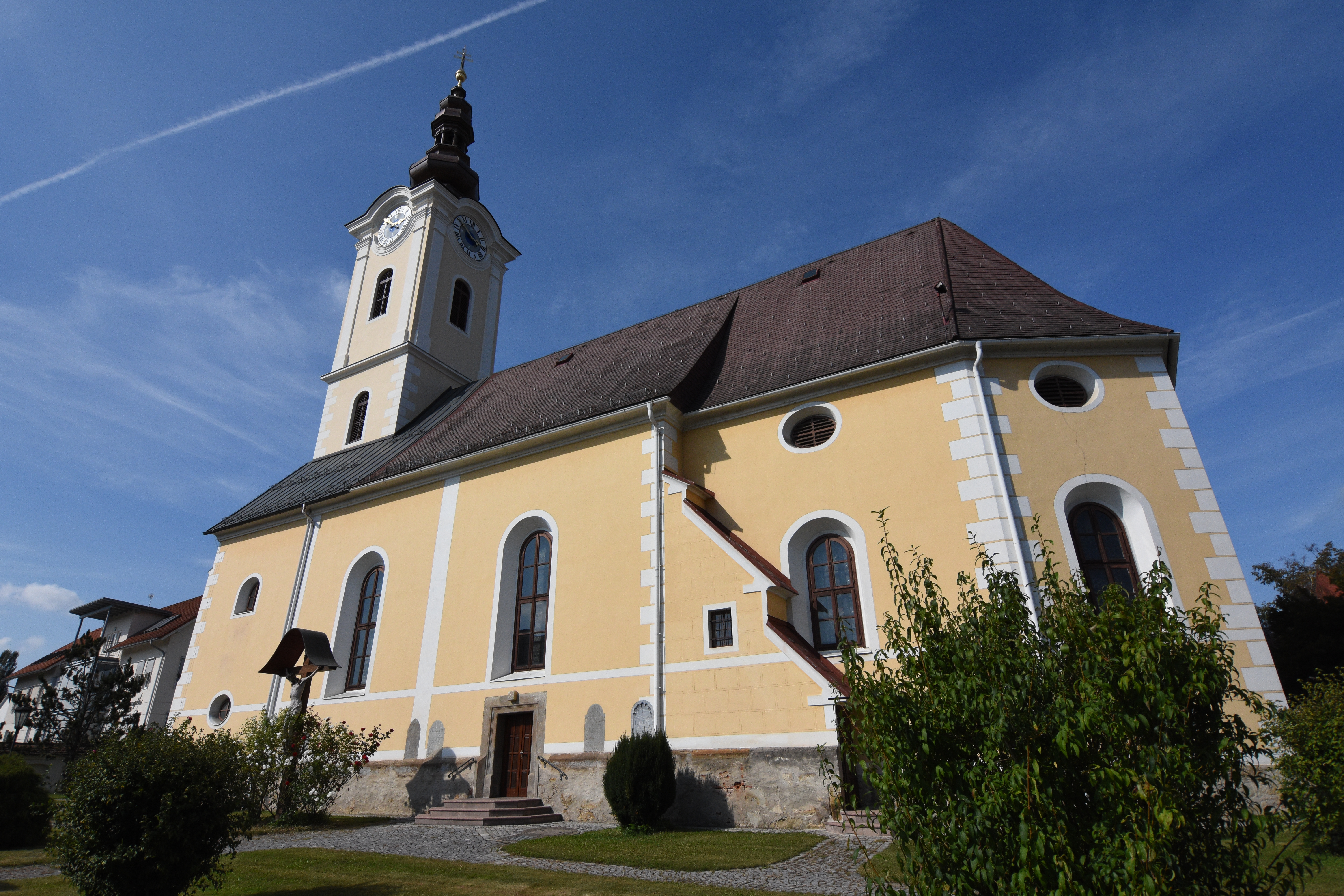 Church Kath. Pfarrkirche hl. Stefan Sankt Stefan in Rosental